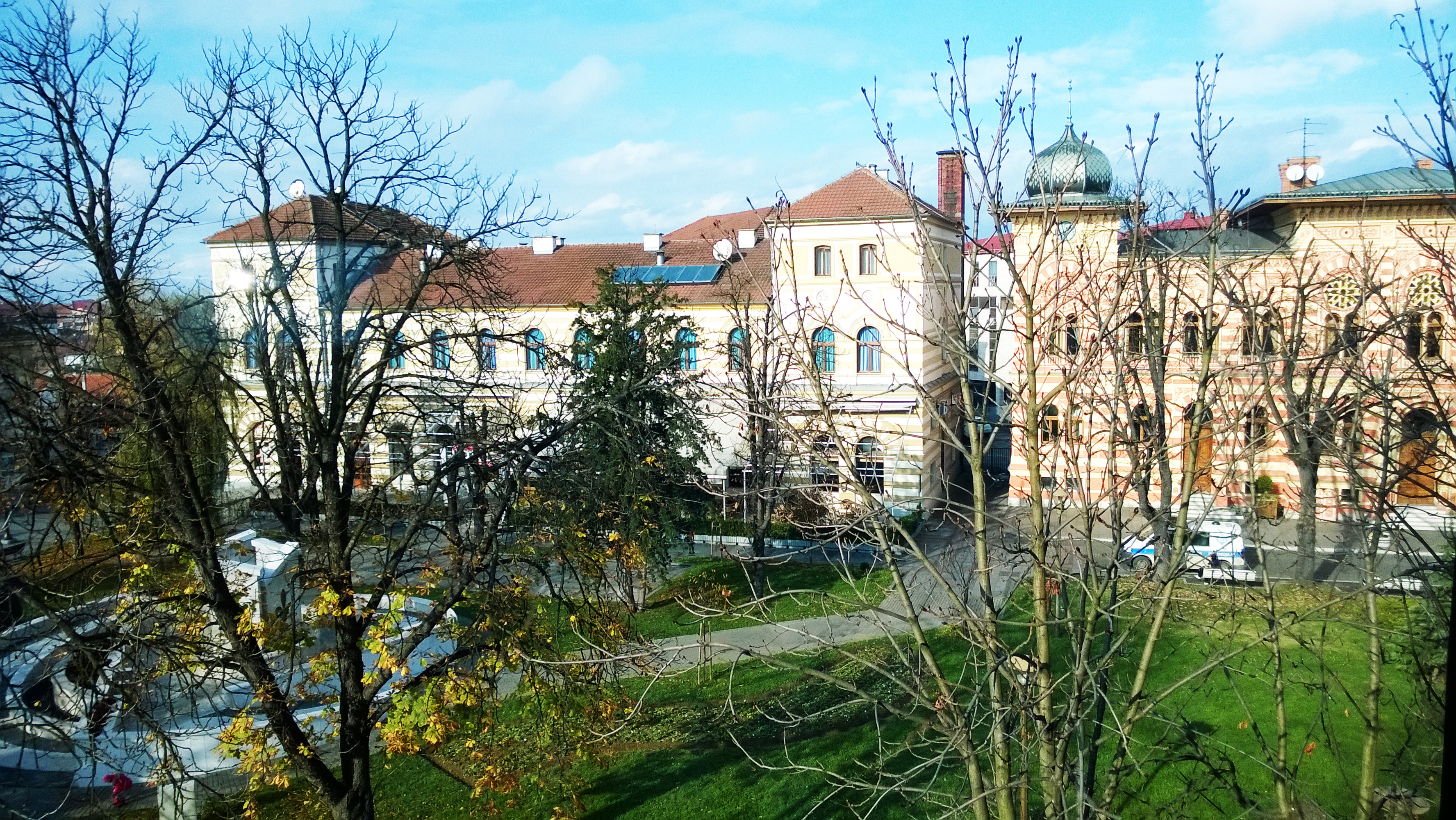 Citty Hall & Hotel Posavina Brčko